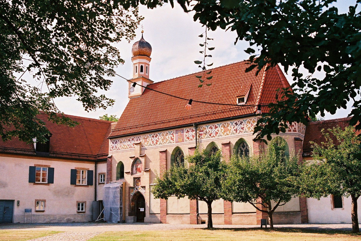 Blutenburg, Munich, exterior of the chapel